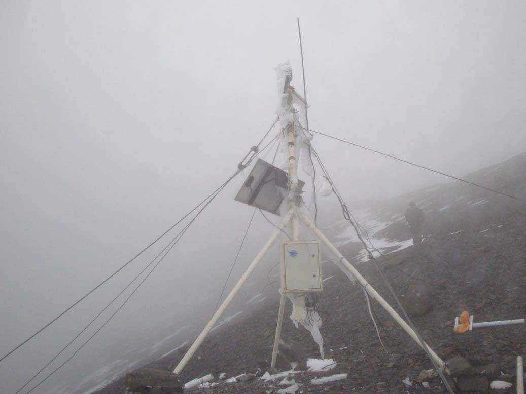 Tufandag Automatic meteorological station